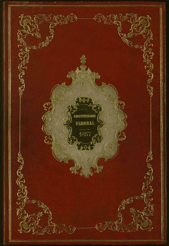 Original cover of the Federal Constitution of the United Mexican States of 1857